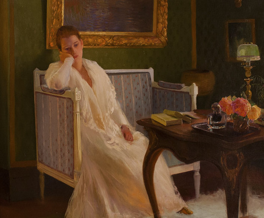 Boredom